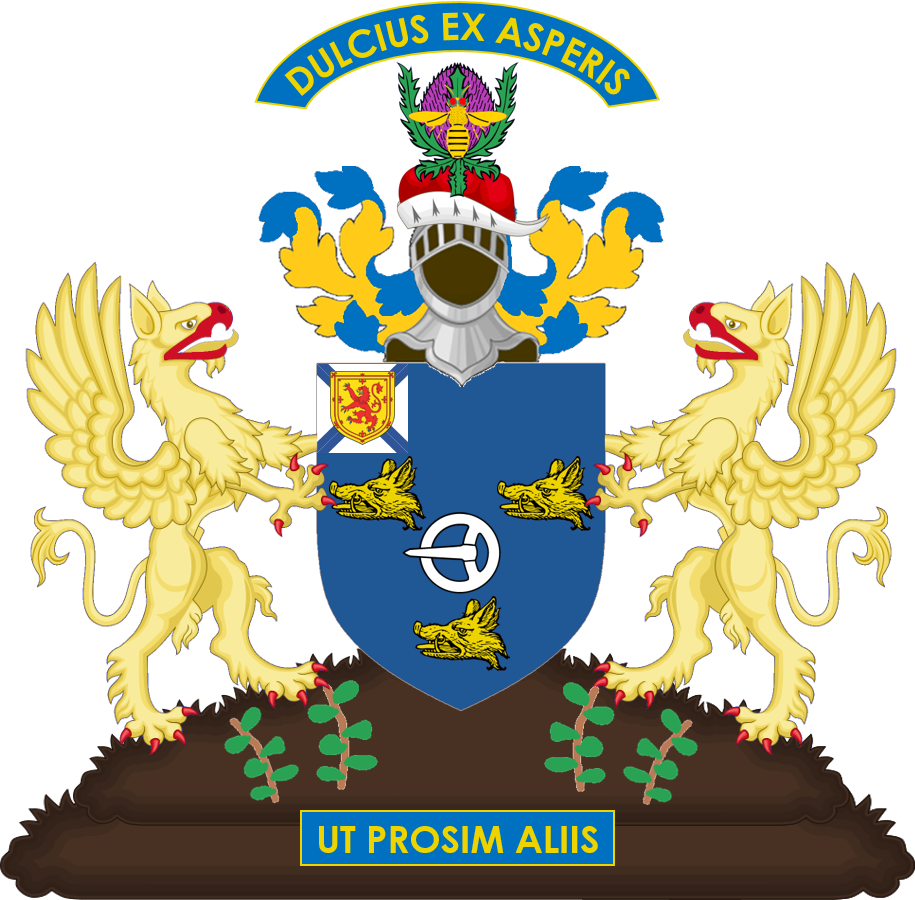 The armorial achievement of the Fergusson baronets of Kilkerran